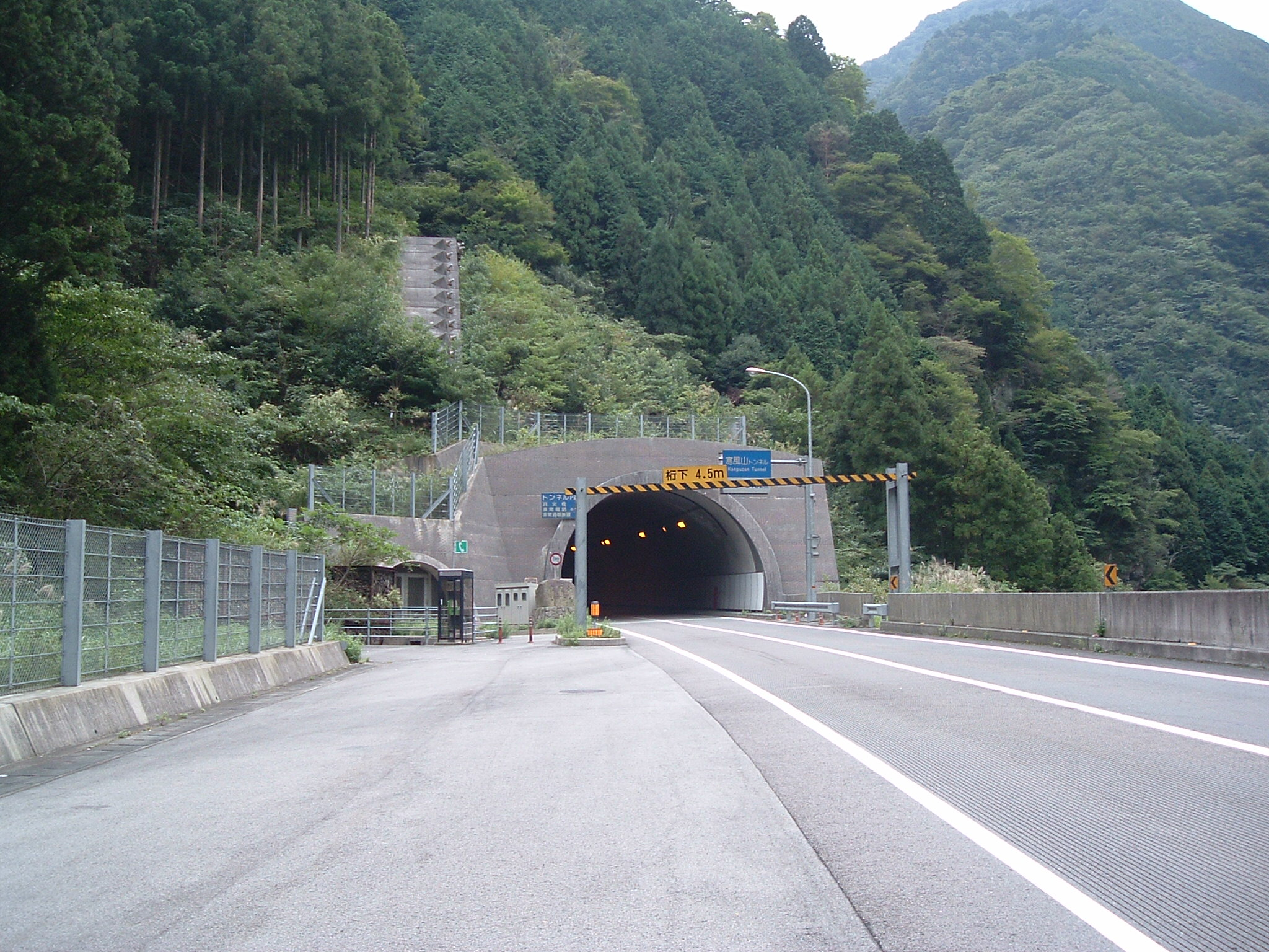 Kanpuzan-tunnel